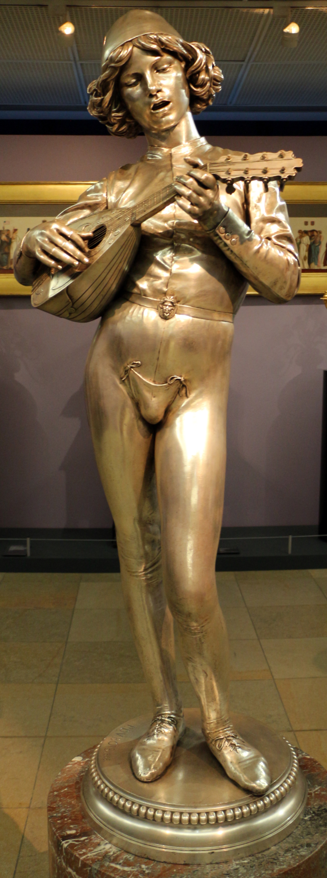 Decorative arts in the Musée d'Orsay